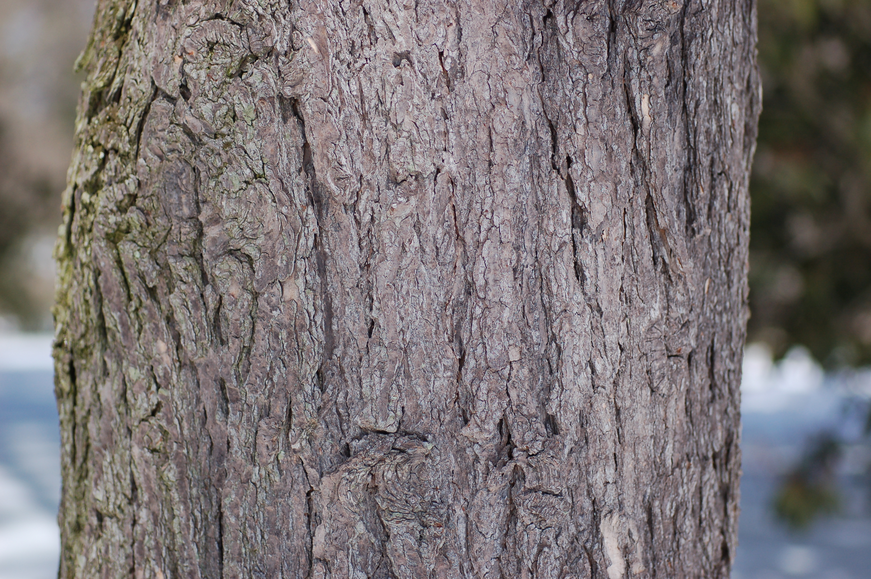 Photograph of the trunk of the Canada Hemlocken (Tsuga canadensis en ). Photo taken at the Tyler Arboretum where it was identified.